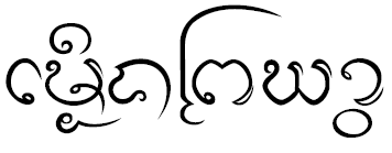 Lanna-Mueang Phayao